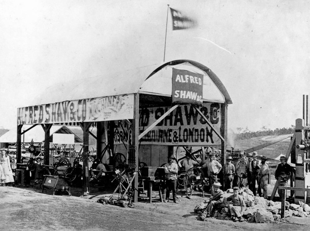 Alfred Shaw & Co.'s machinery exhibition at the Queensland Intercolonial Exhibition in 1876 Alfred Shaw and Company, ironmongers of Queen Street, Brisbane, had an open-air display of imported machinery at Bowen Park.